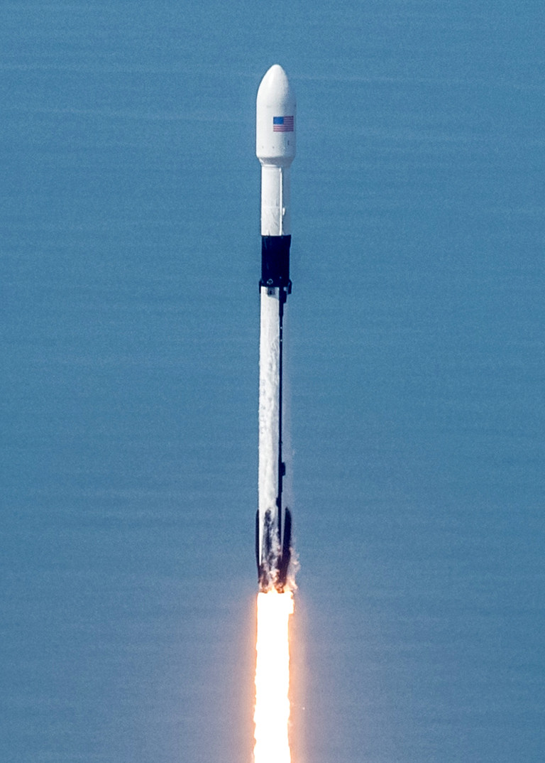 Bangabandhu Satellite-1 Mission, Crop and contrast enhanced from original image